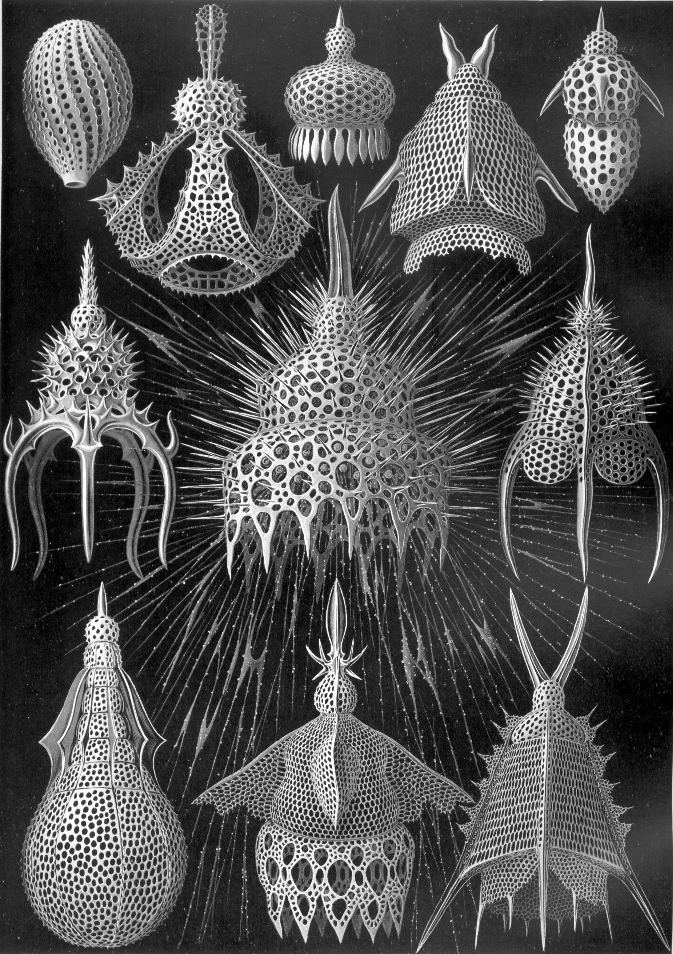 See here for index to numbers. Cyrtophormis spiralis (Haeckel) = Artostrobiidae sp.?, shell Clathrocanium reginae (Haeckel) = Clathrocanium reginae Haeckel, 1887, shell Anthocyrtium campanula (Haeckel) = Pterocorythidae sp.?, shell Pterocorys rhinoceros (Haeckel) = Lipmanella cf. bombus?, shell Lithornithium falco (Haeckel) = Theoperidae sp.?, shell Alacorys Bismarckii (Haeckel) = Thyrsocyrtis sp.?, shell Calocyclas monumentum (Haeckel) = Calocyclas monumentum Haeckel, 1887, shell with living animal Pterocanium trilobum (Haeckel) = Pterocanium trilobum (Haeckel, 1861), shell Stichophaena Ritteriana (Haeckel) = Amphipyndacidae sp.?, shell Dictyocodon Annasethe (Haeckel) = Nassellaria sp.?, shell Artopilium elegans (Haeckel) = Pterocanium elegans (Haeckel, 1887), shell